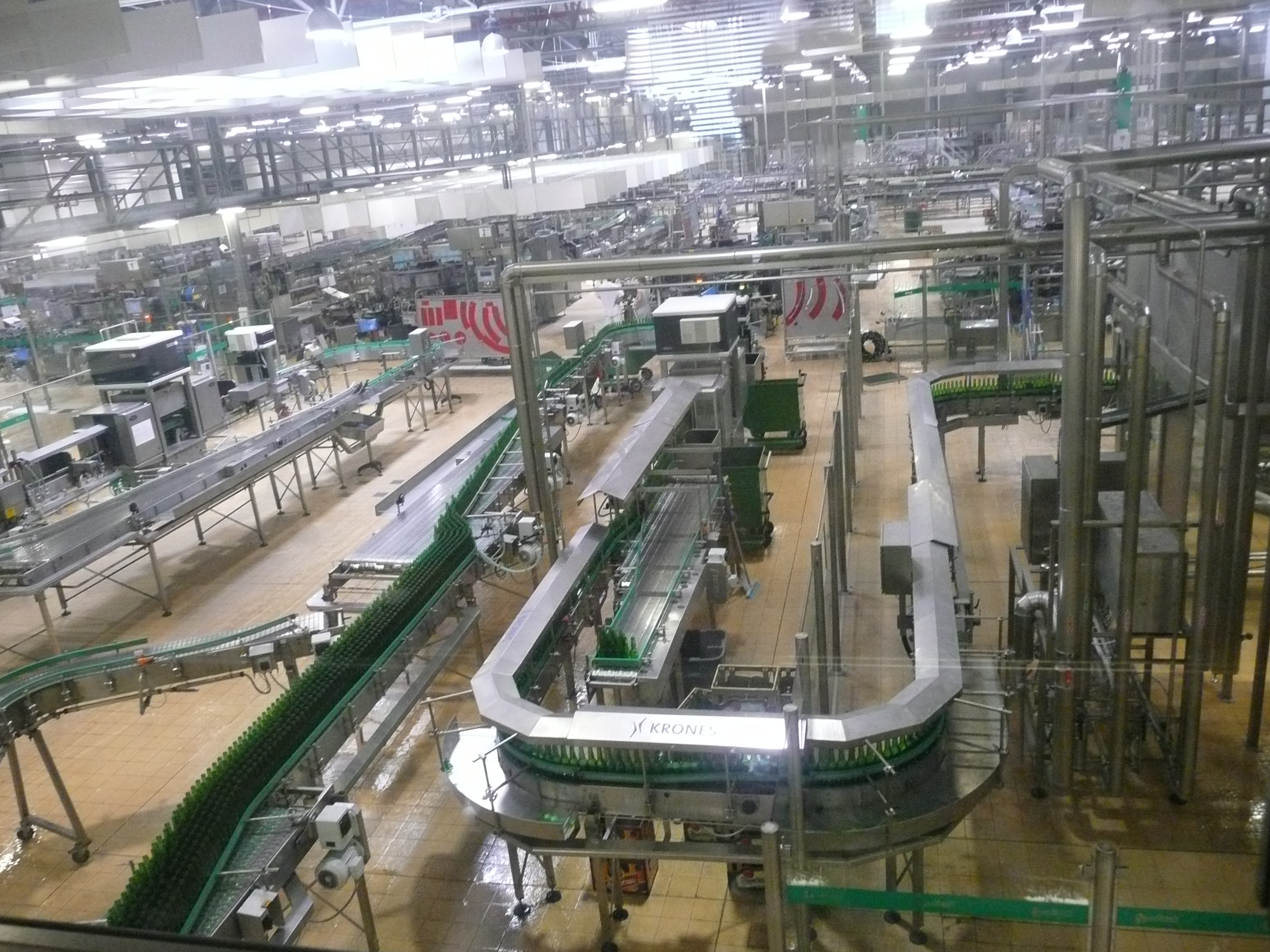 Tour of Plzeňský Prazdroj (Pilsner Urquell) brewery in Plzeň, Czech Republic.